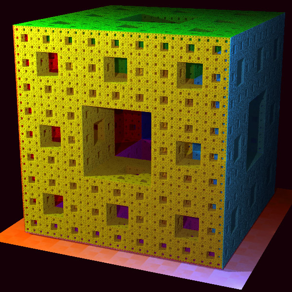 Menger sponge, a fractal. Created from using a "iterated function system" (IFS) in three dimensions.